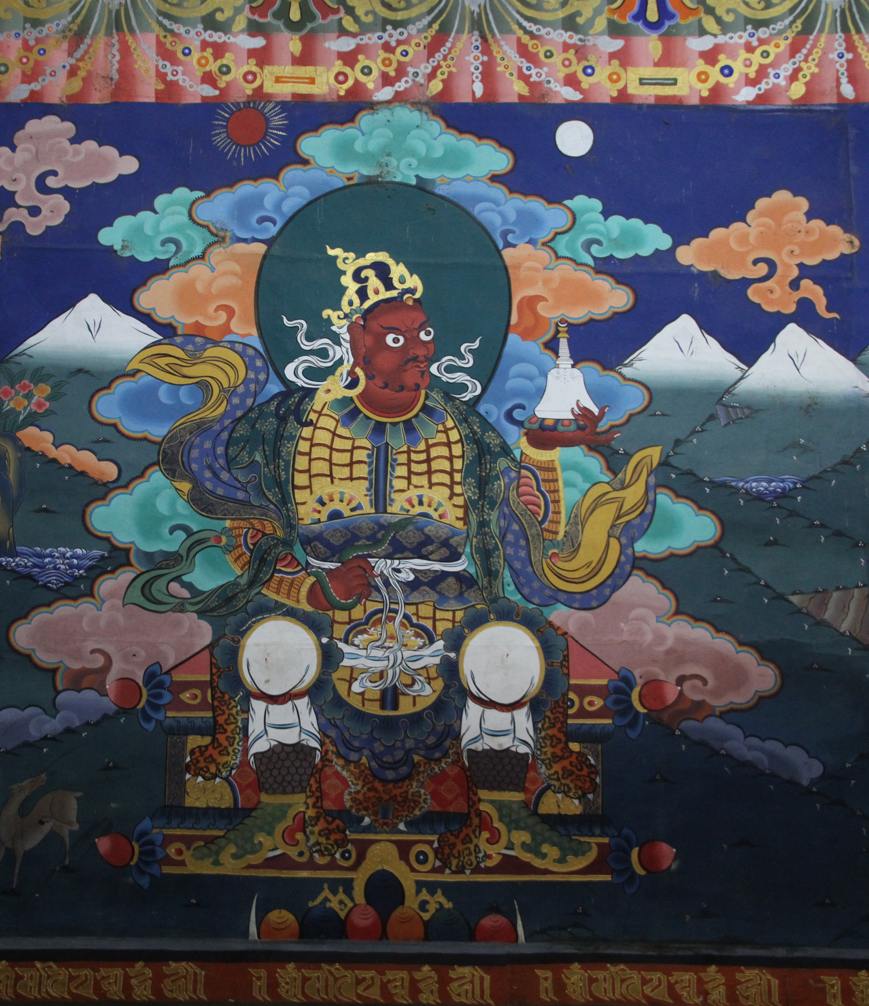 Painting in the Dzong of Paro, Bhutan.